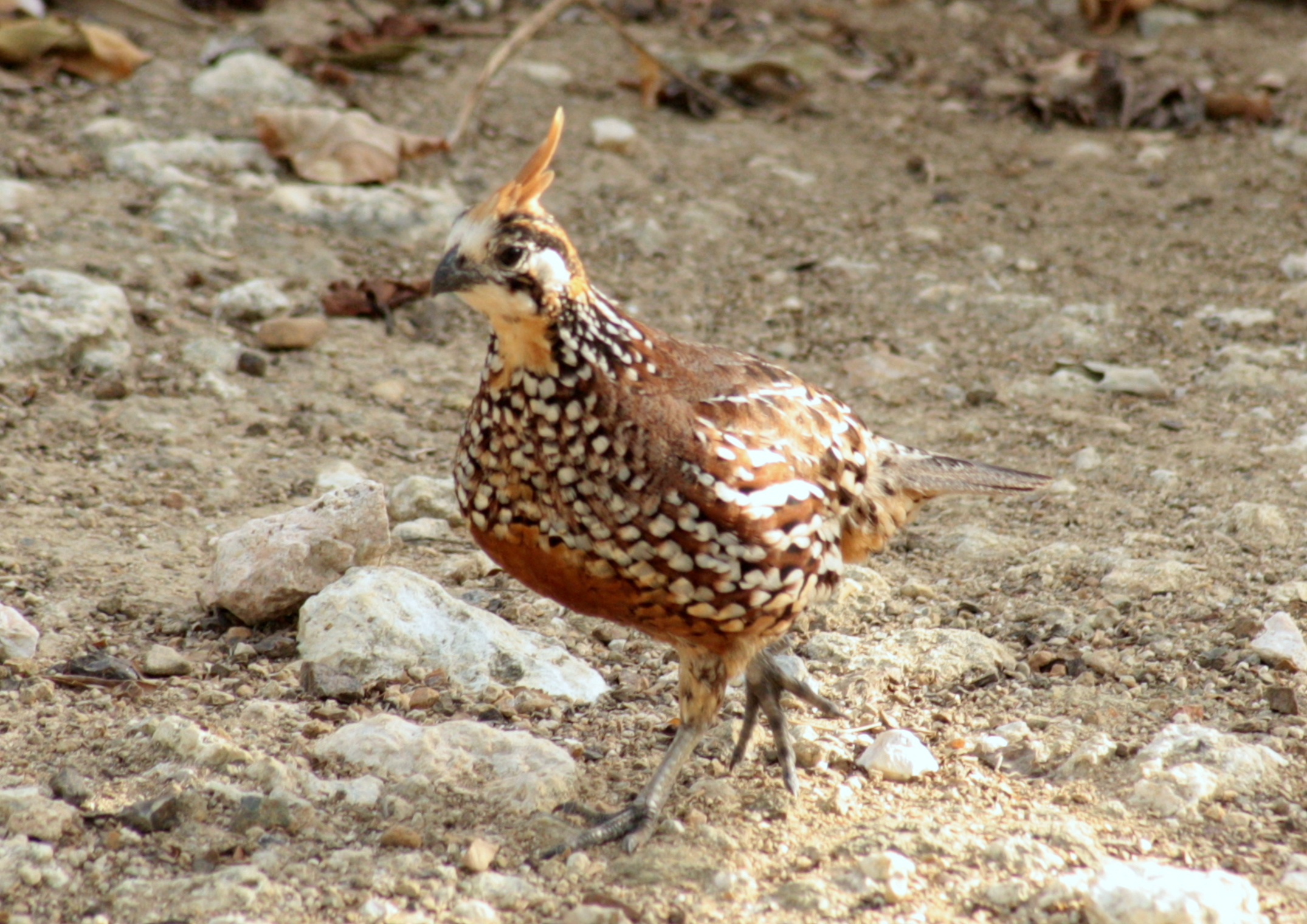 A Crested Bobwhite on the island of Curaçao, Netherlands Antilles.